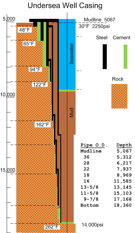 undersea well casing